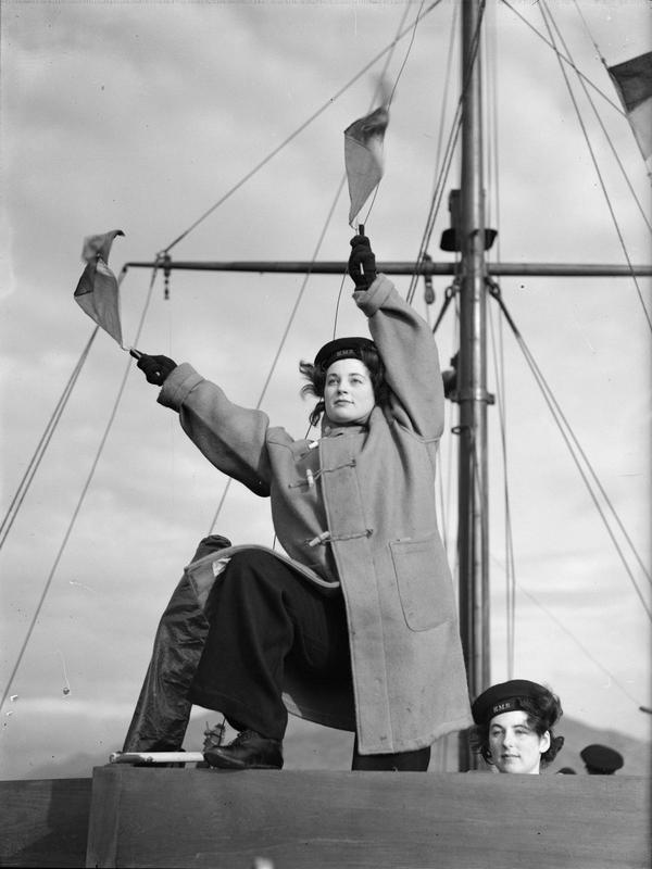 Wren Signalwomen at Sea For Signal Experience. 9 March 1943, Greenock. One of the Wren Signalwomen busy with the flags.